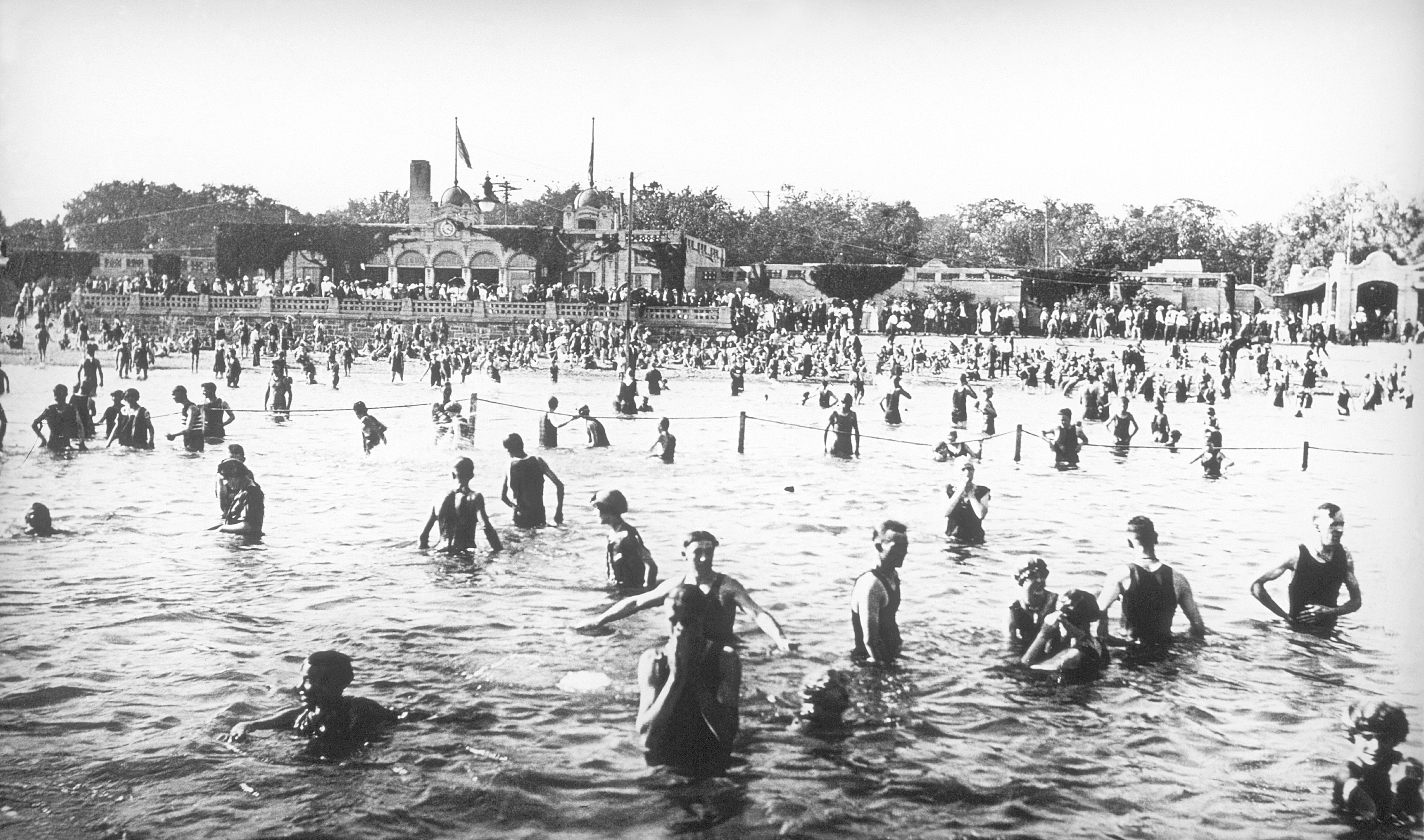 This 1917 photograph depicted a gathering of swimmers at the Lake Calhoun public bathing beach in Minneapolis, Minnesota. This image offered a view of the pavilion and beach area. It was taken during a Minnesota Department of Health study of the public bathing areas. The descriptive information accompanying the photograph referred to a governmental publication discussing public health concerns at such public bathing venues. The specific citation was, “Whittaker, H.A., Investigation of Lake Calhoun Public Baths, Minneapolis, May to November, 1917, Journal: Lancet, February 15, 1918”. This was one of a series of instructional images used by the Minnesota Board of Health to train public health workers. The purpose of the images, and the associated training, was focused on protecting public water supplies from bacterial contamination.